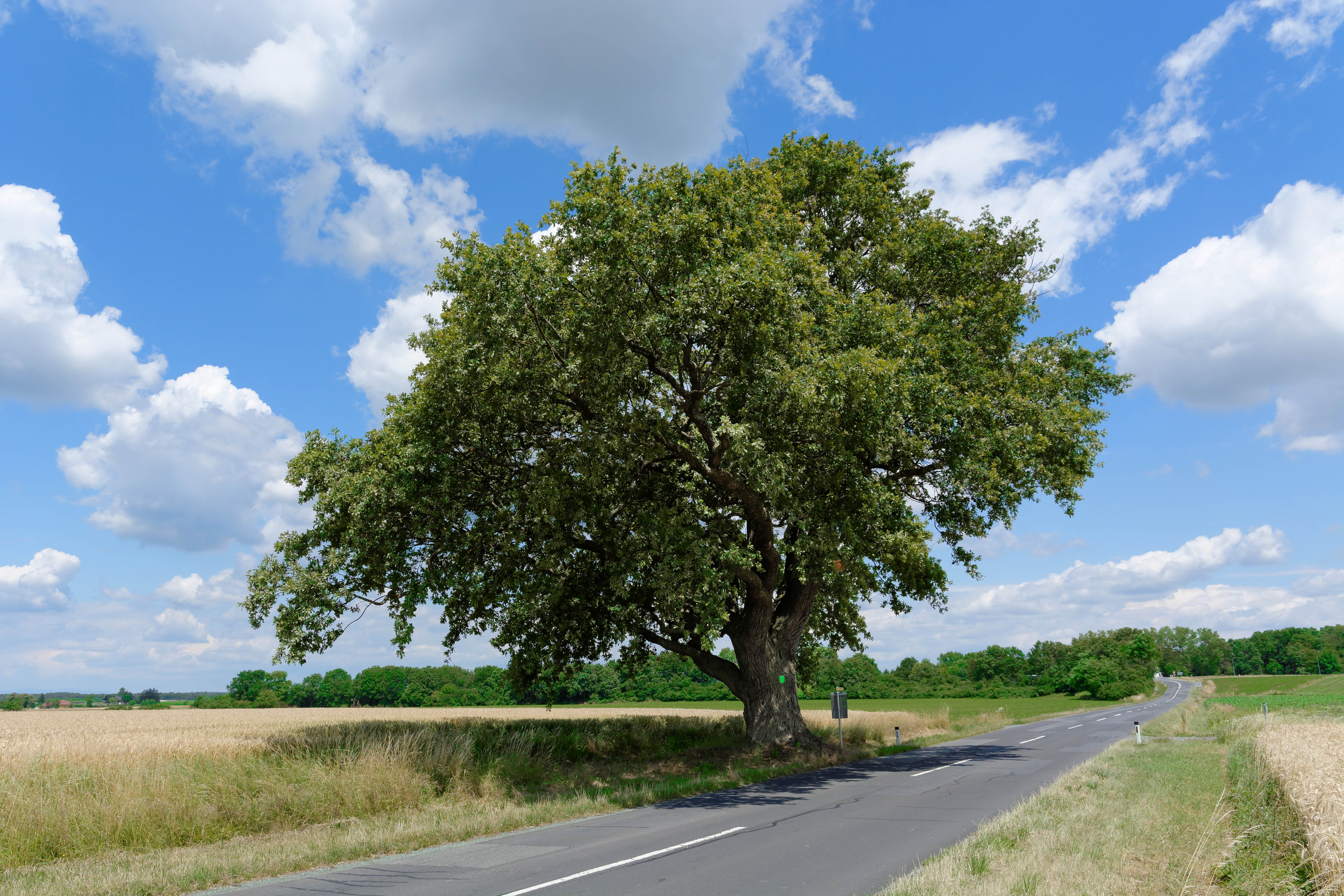 Natural monument common oak near Heiligenbrunn, Burgenland, Austria This media shows the natural monument in the Burgenland with the ID GS-097.